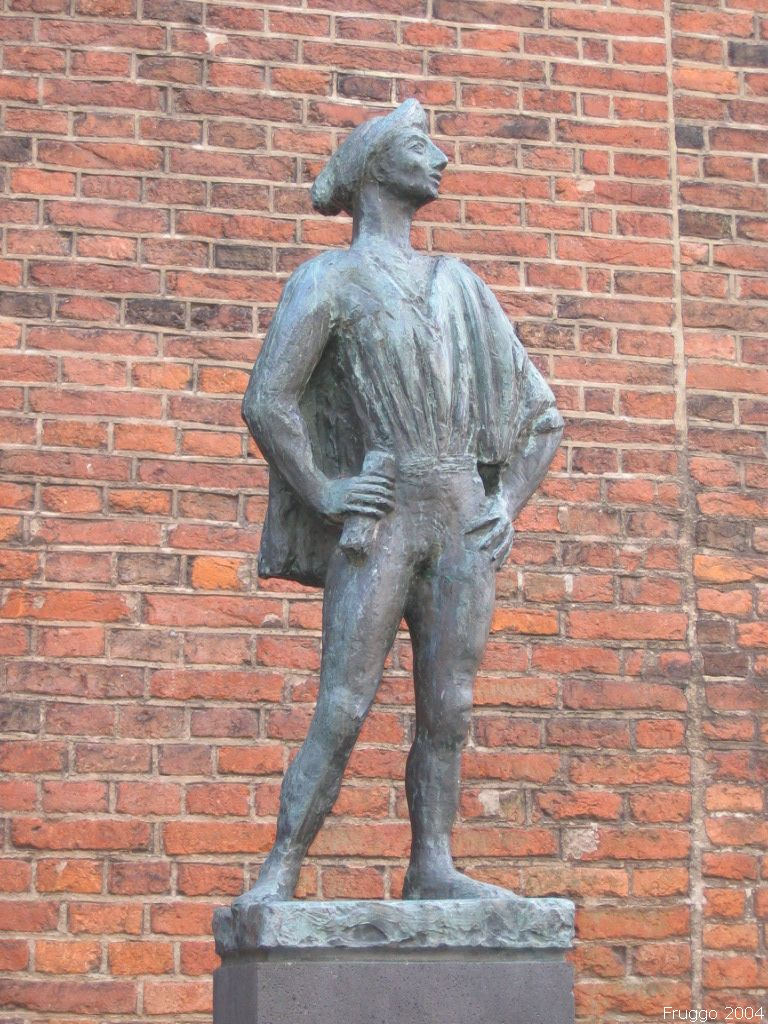 Statue of Francois Villon, Utrecht, made by Marius van Beek in 1964.